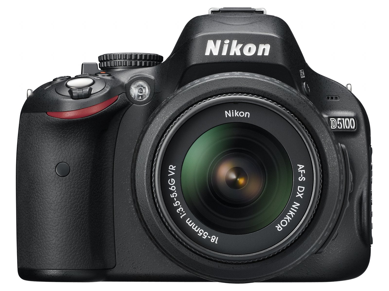 Nikon D5100 body with Nikkor 18-55mm.